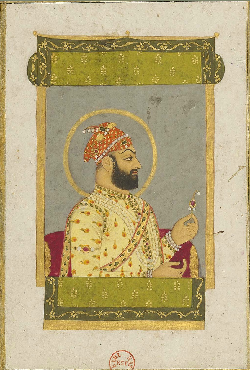 Portrait of Mughal emperor Farrukhsiyar at his balcony. Bibliothèque nationale de France, Paris